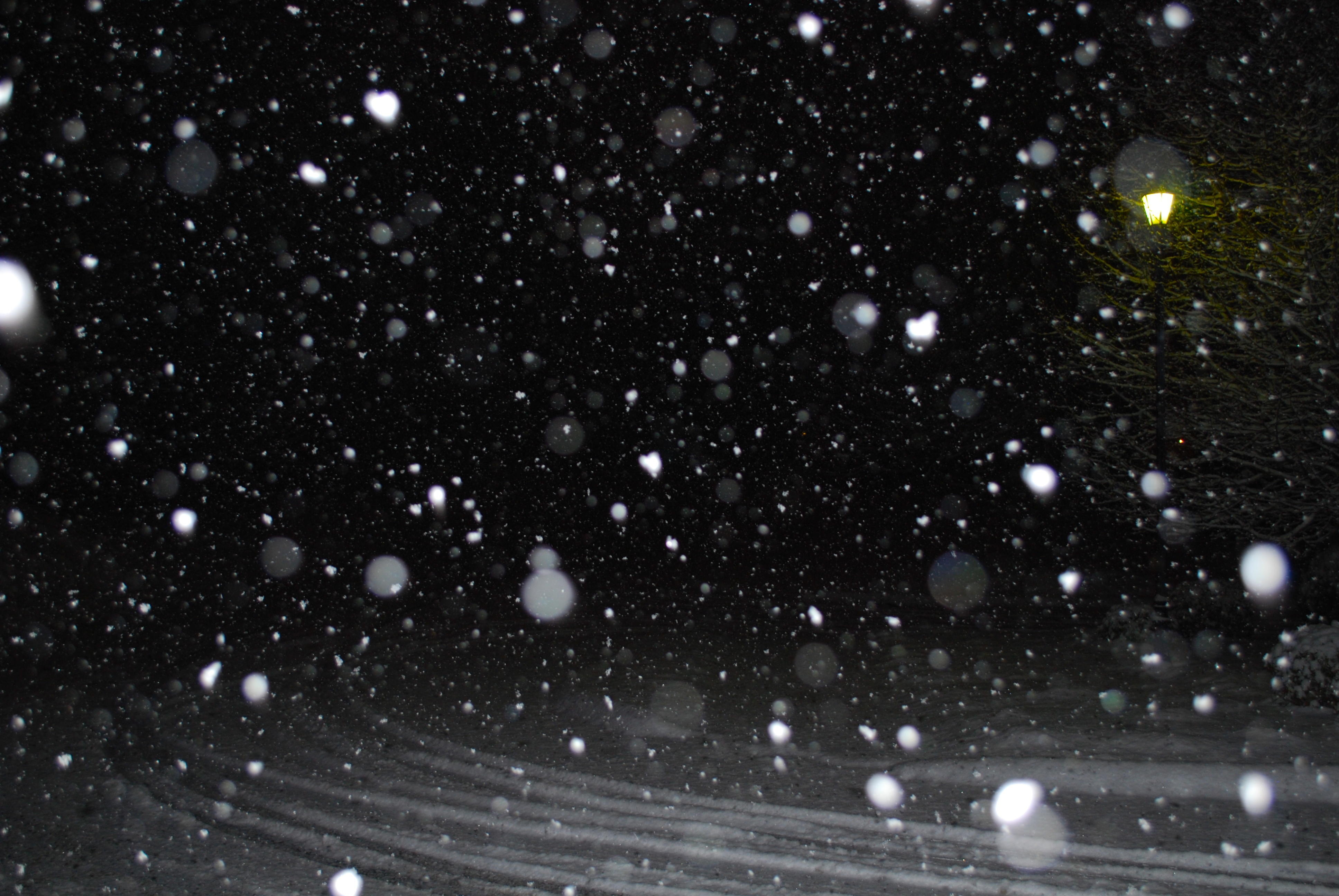 two-oh-six/three-sixty-five